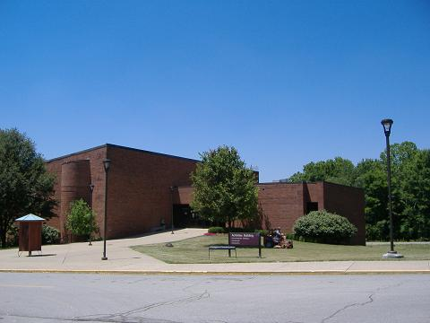 The Activities Building of Indiana University Southeast.